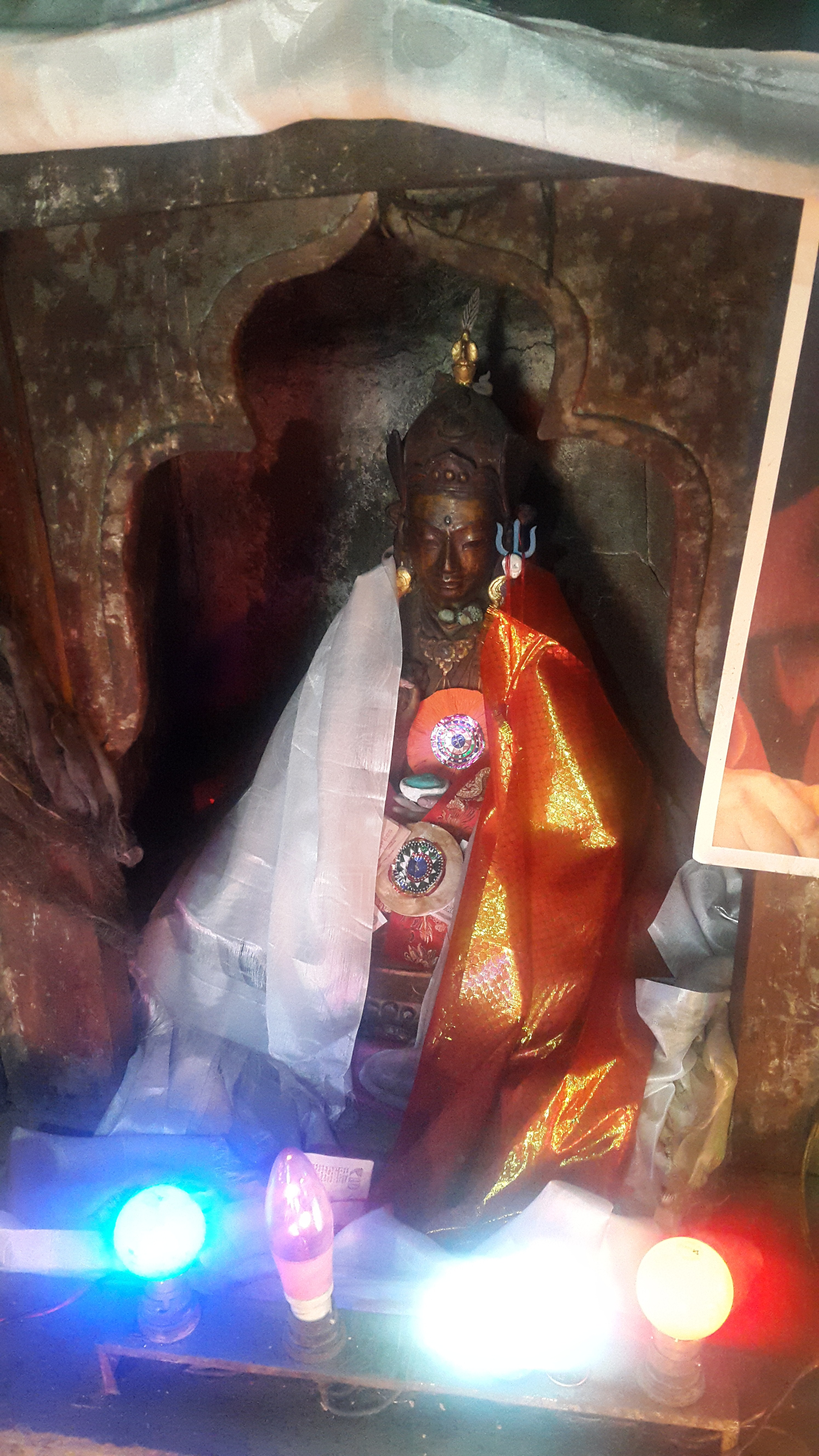 Guru Rinpoche at Tinno Monastery1